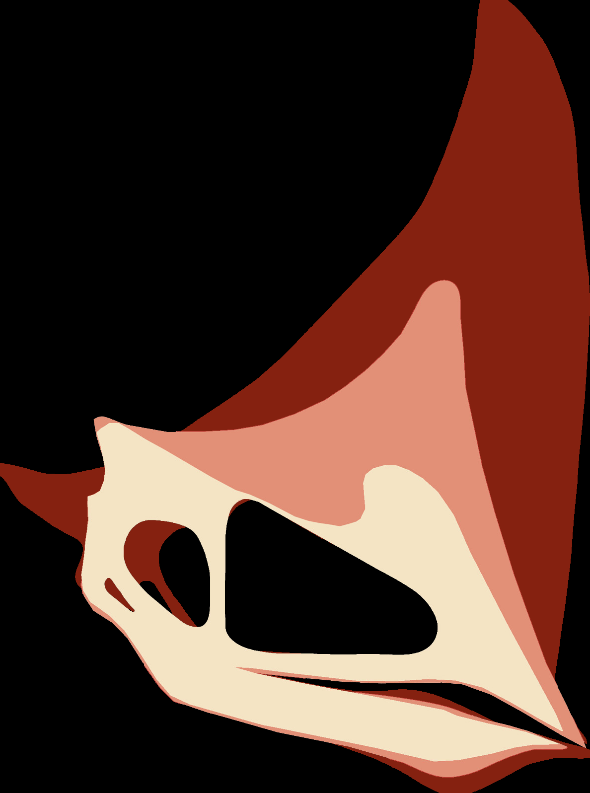 Caiuajara dobruskii gen. et sp. nov., reconstruction of shapes from juveniles (bright color) to adults (darker color). Outlines not to scale.